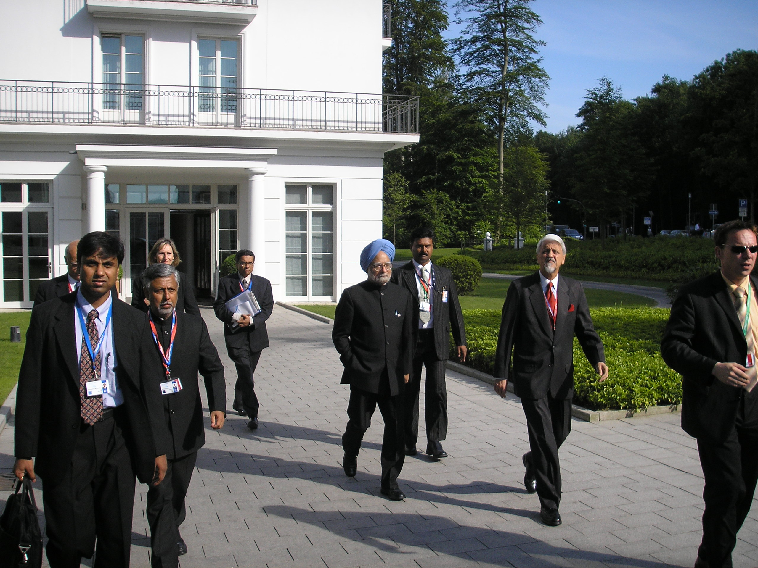 Indian Prime Minister Manmohan Singh at the G8 summit "outreach" programme in Heiligendamm.